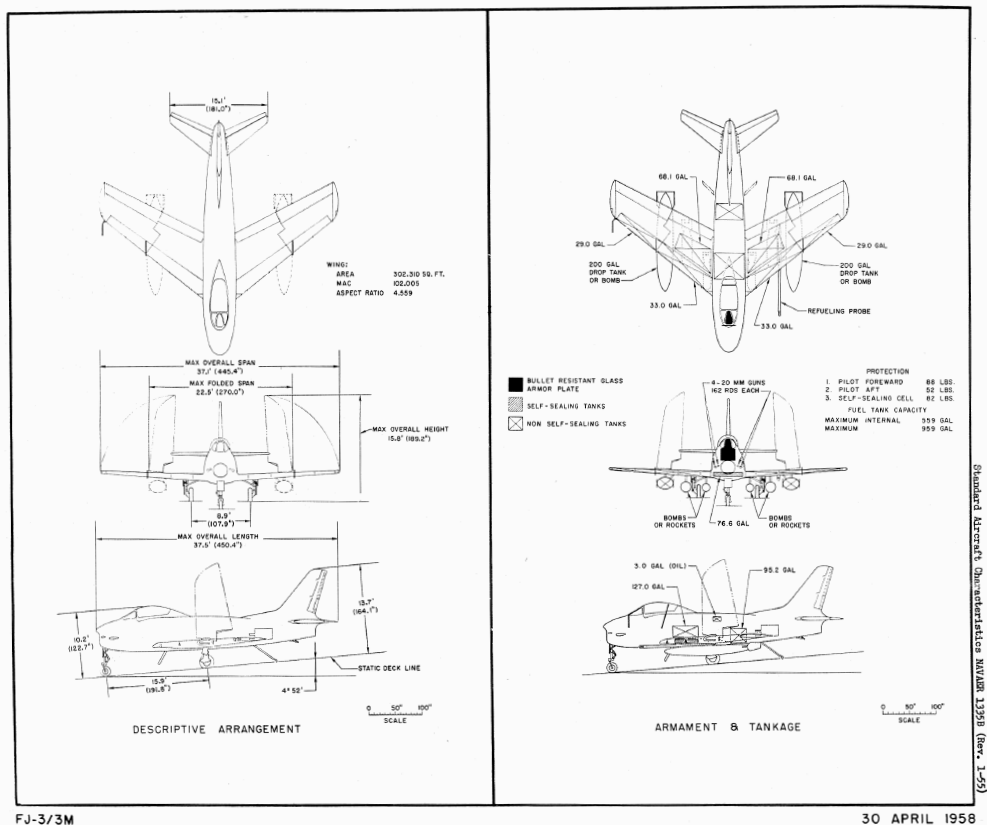 Line drawings for the North American FJ-3/-3M Fury fighter.